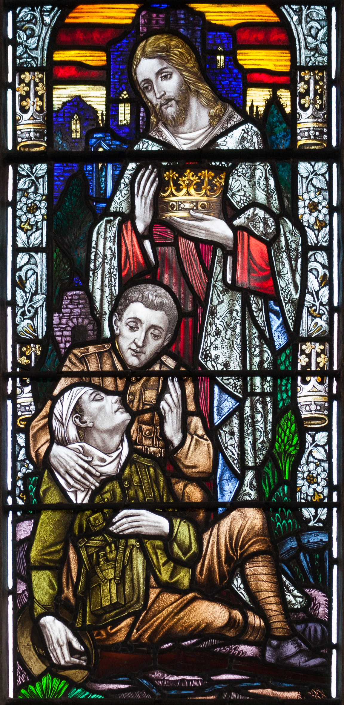 Centre light of the stained glass window in the north aisle of the nave, depicting the Crown of Life. The window was created c. 1919 by the studio Joshua Clarke & Sons, Dublin. (See gloine.ie).